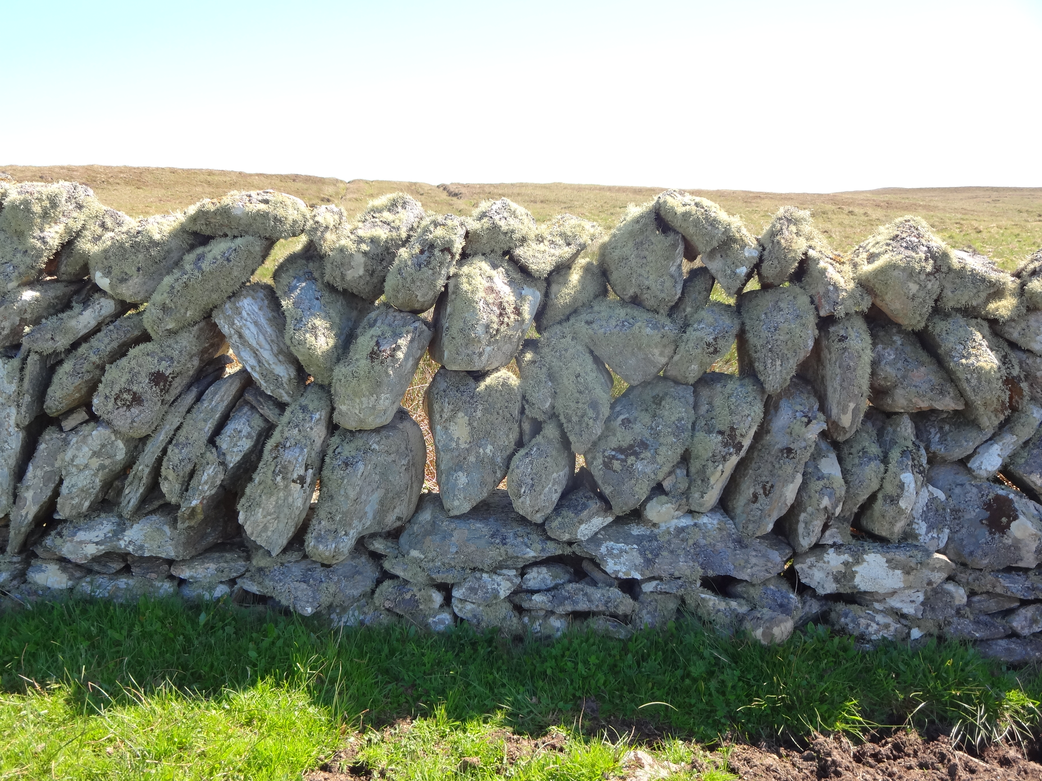 Special type of dry-stone wall (Galloway dyke) to deter livestock from attempting to cross it. Built c.1830 as part of clearance by Arthur Nicolson of Lamb Hoga on Fetlar, Shetland Islands